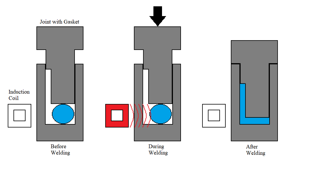 Image shows before, during, and after steps for the welding of an implant induction joint.